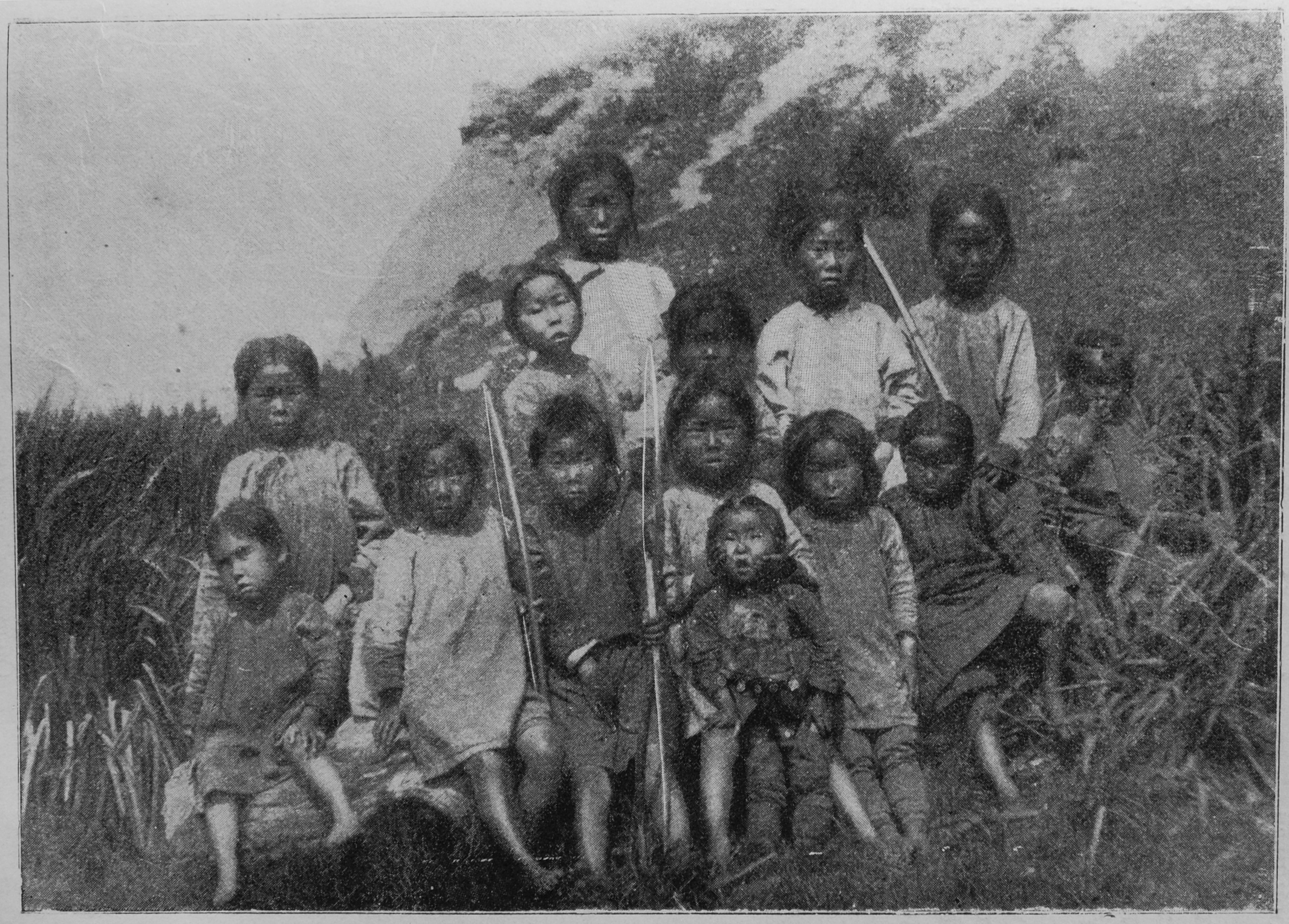 Native people of Sakhalin. Nivkh children